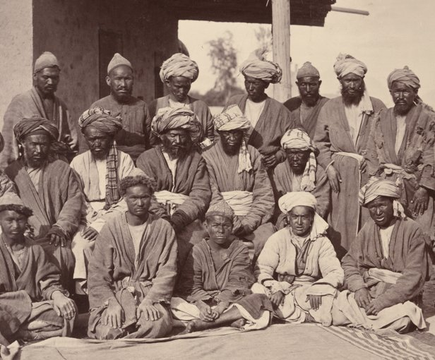 Behsudi Hazara Chiefs (Hazaras of Behsud) Photograph, a posed group portrait of Besudi Hazara chieftains taken by John Burke in 1879-80, possibly at Kabul in Afghanistan. Burke accompanied the British army into Afghanistan in 1878 and worked steadily in the hostile environment of Afghanistan and the North West Frontier Province, recording military and topographical scenes as well as the peoples of the country during the Second Afghan War (1878-80). Burke also photographed many darbars or meetings that took place between British combat leaders and Afghan chiefs which led to the uneasy peace treaties characteristic of the campaign. His two-year Afghan expedition produced a visual document which resulted in his achieving significance as the photographer of the region of the Great Game (the Anglo-Russian territorial rivalry).